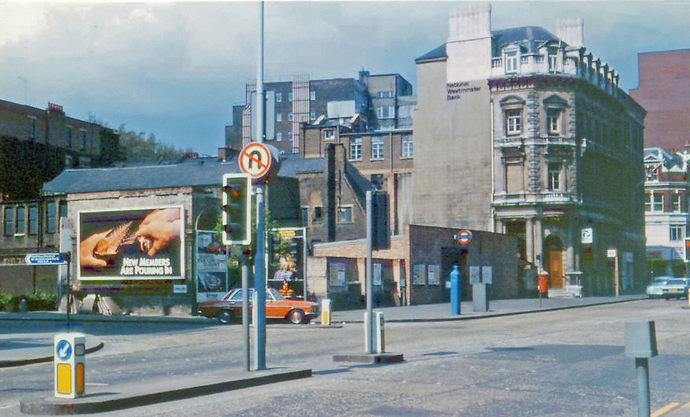 Barbican station entrance on Aldersgate Street, 1981. View northward on Aldersgate Street at Long Lane. This station ('Aldersgate' until November 1910, then 'Aldersgate Street', '& Barbican' from 24/10/24,) was one of those on the first extension to Moorgate Street (December 1865) of the pioneering (January 1863) underground Metropolitan Line (Paddington - Farringdon Street). It was heavily damaged in the Blitz in December 1940, but the lines and platforms were quickly restored. Since the War the station has been rebuilt, along with the Barbican Centre in the area, taking on its present name from 1/12/68, but this unimposing entrance has remained - see e.g. TQ3281 : Aldersgate Street. From the outset the station also served the ex-GNR and ex-Midland services (Thames Link from 1988) to Moorgate from the northern suburbs of London: these joined at Kings Cross St Pancras, branching off at Farringdon, but the Moorgate trains have recently (2009) been withdrawn.